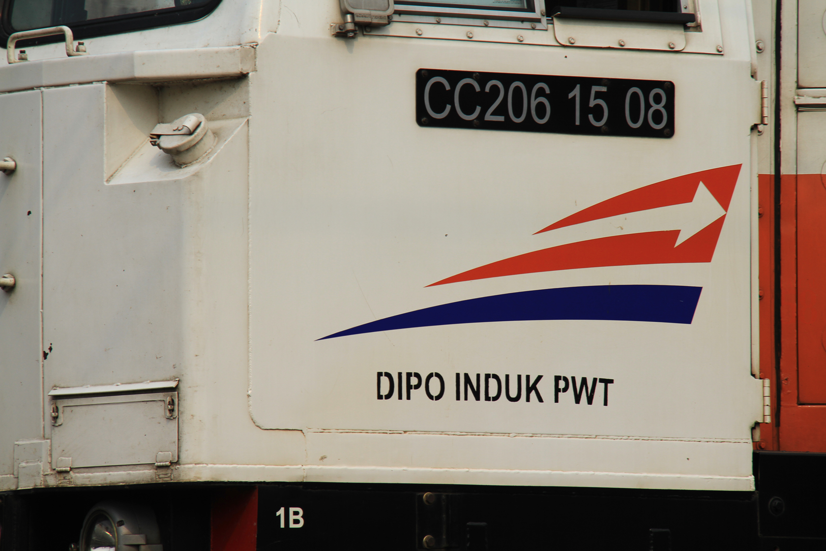 Numbering details on GE CM20EMP number CC2061508 owned by Kereta Api Indonesia. The Indonesian rolling stock numbering system is regulated in The Minister of Transportation's rule number 54 year 2016. The number CC2061508 has the following meanings: CC = Has 6-axle, with two 3-axle bogies each 2 = Powered by diesel electric engine 06 = 7th class of its type (engine class starts from 00) 15 = Manufactured in 2015 08 = 8th unit on its class While "Dipo Induk PWT" is an additional information added by its home locoshed, that this engine is assigned into Purwokerto (PWT) locoshed, and the "1B" is an additional information added by its manufacturer, General Electric, which means this is side B of the main driver's cab, while the second driver's cab numbered 2A and 2B.